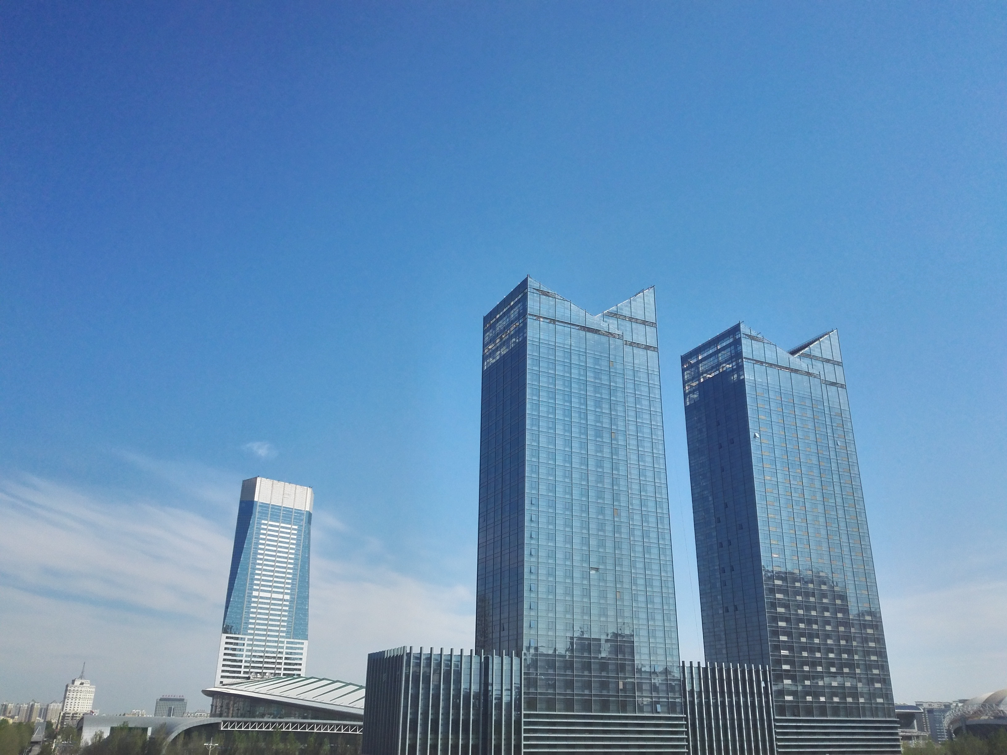 Harbin Economic and Technological Development Zone, located on Changjiang road, Nangang District, Harbin.